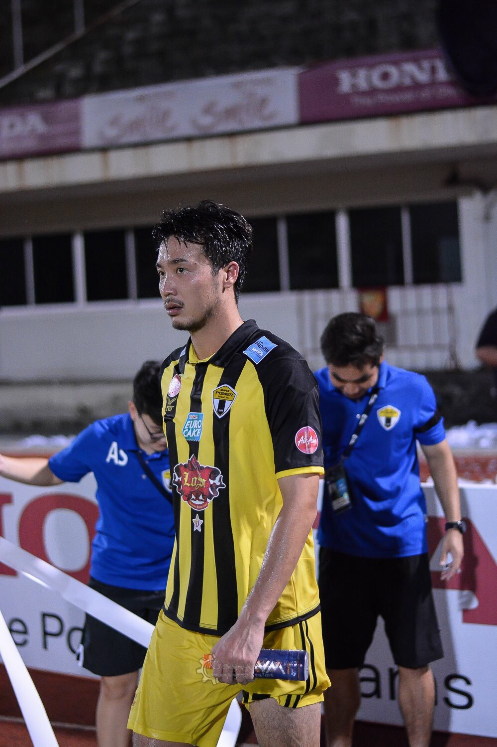 Lee keon pil in Thai league 1